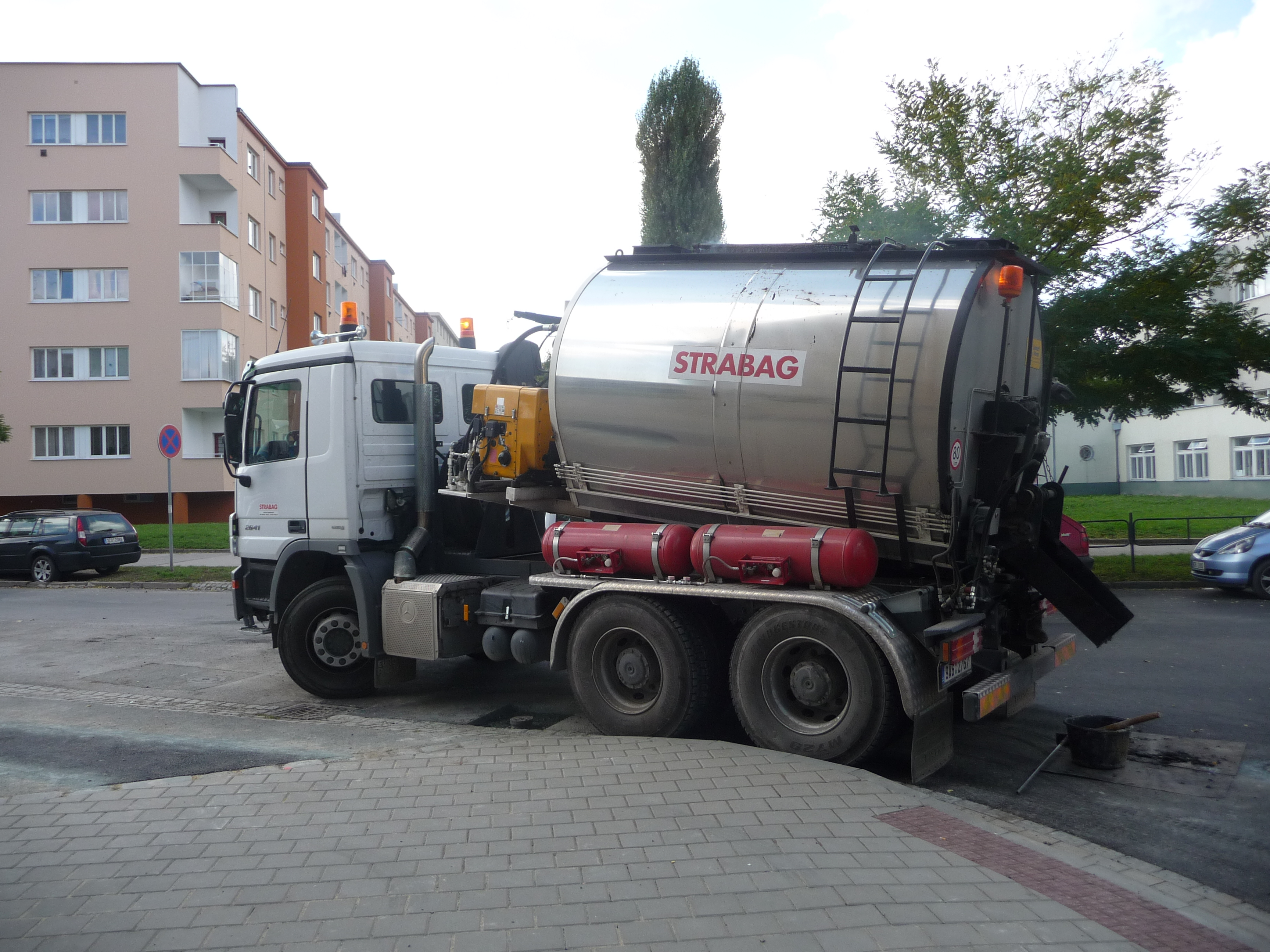 Asphalter truck, Bezručova, Brno